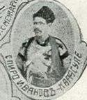 Portrait of IMARO member Spiro Ivanov from Karasule